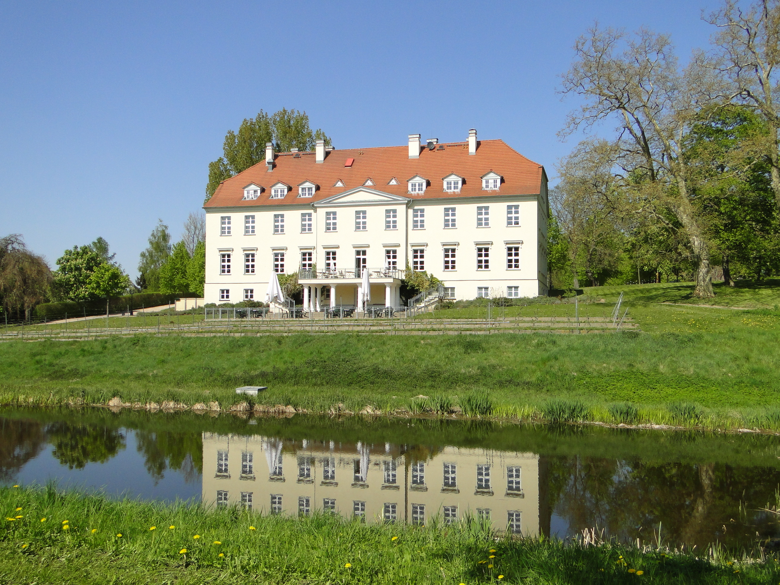 Castle in Rattey, district Mecklenburg-Strelitz, Mecklenburg-Vorpommern, Germany